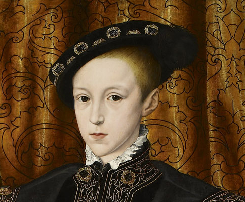 King Edward VI of England by William Scrots (ca. 1550)